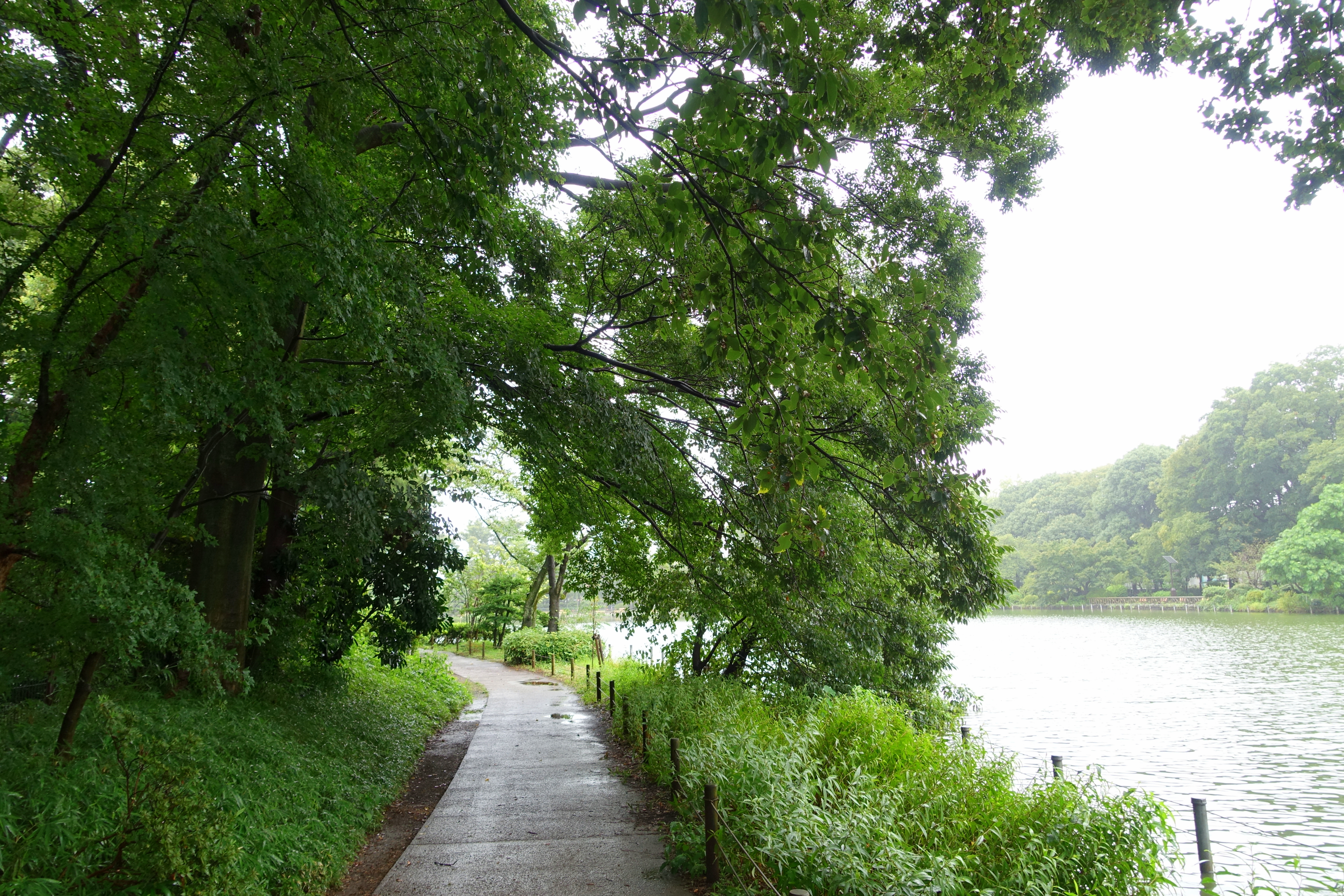 Zenpukuji Park (善福寺公園) in Suginami, Tokyo, Japan.